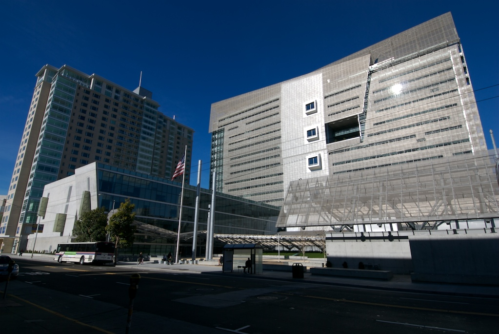 SoMa Grand and San Francisco United States Federal Building